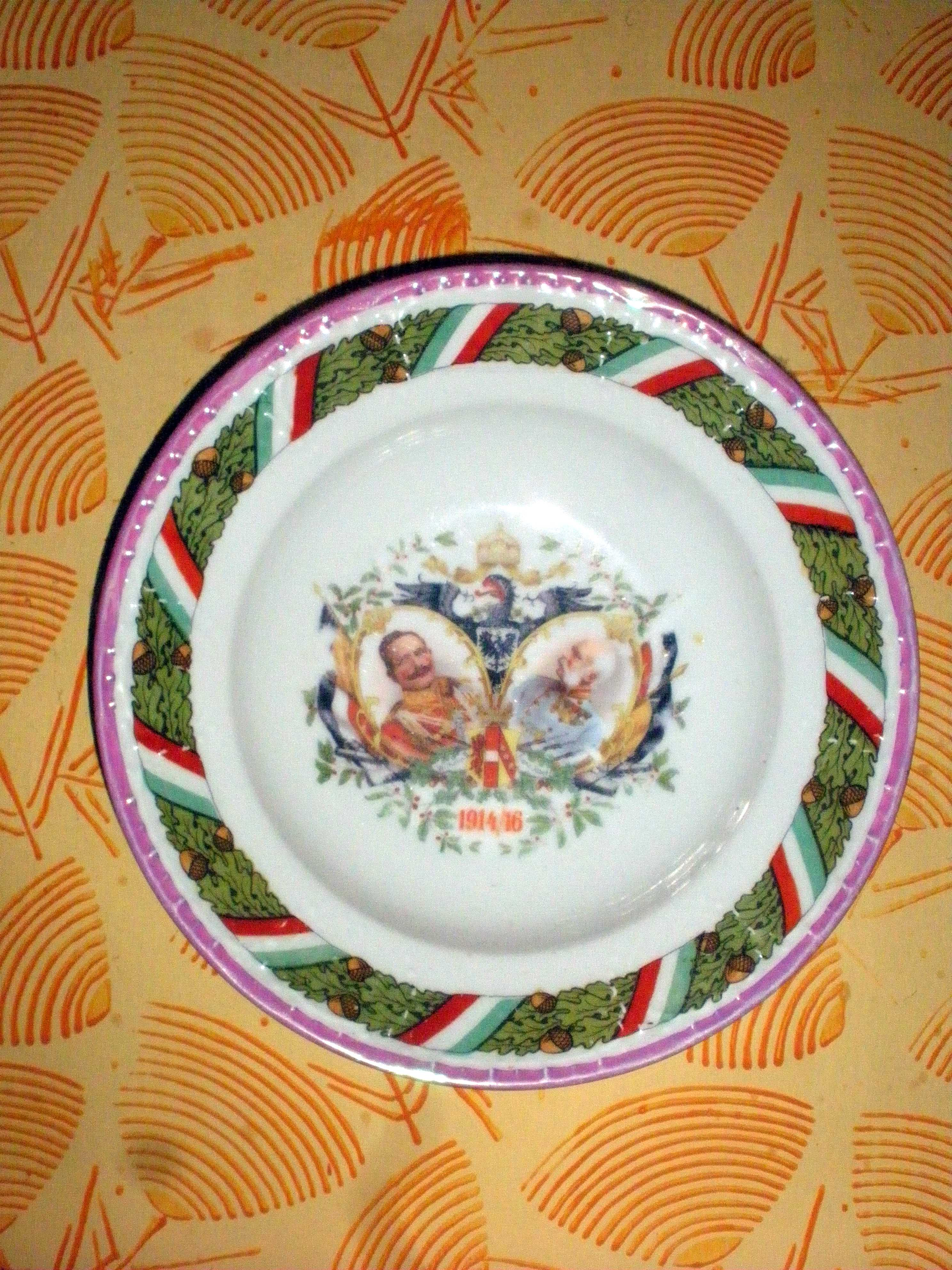 I photographed plate from 1916 on the wall with Franz Jozef and Wilhelm II